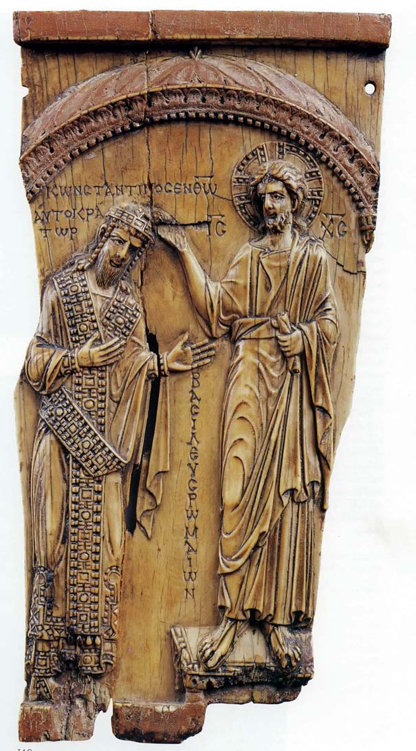 A piece of carved ivory from the Pushkin Museum representing Christ blessing Emperor Constantine VII. Dated back to 945, the piece passed from the treasury at Etchmiadzin to the collection of Count Sergey Uvarov in the mid-19th century.